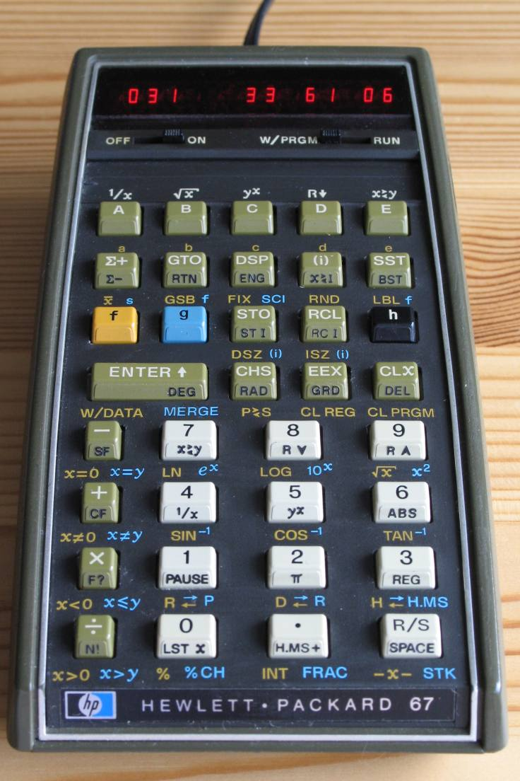 HP-67 in programming mode displaying STO+ 6